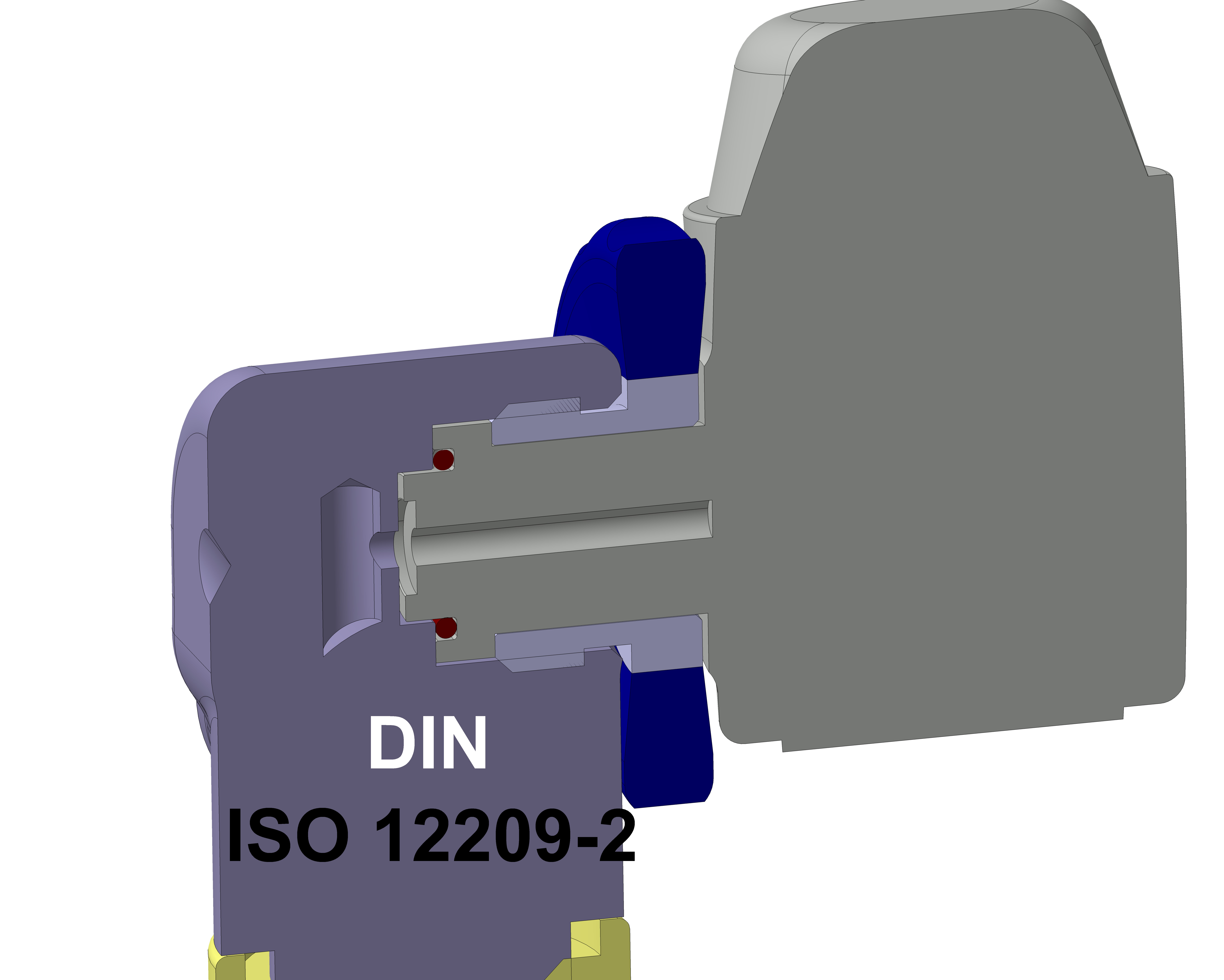 DIN-valve for Scuba tanks. According to ISO 12209-2.